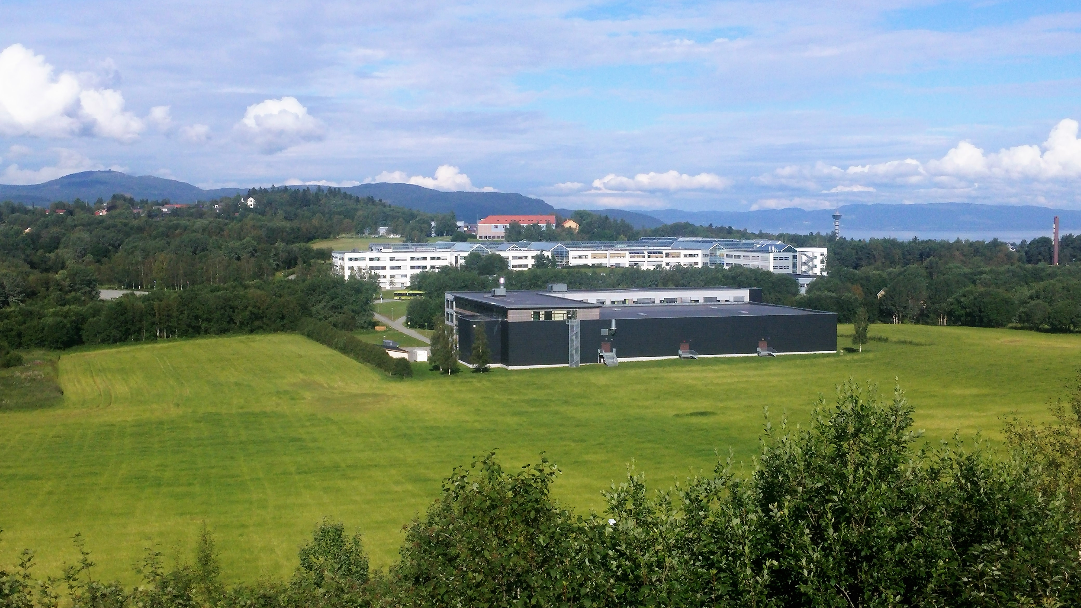 University buildings at Dragvoll, NTNU, Trondheim, Norway. Summer 2017.